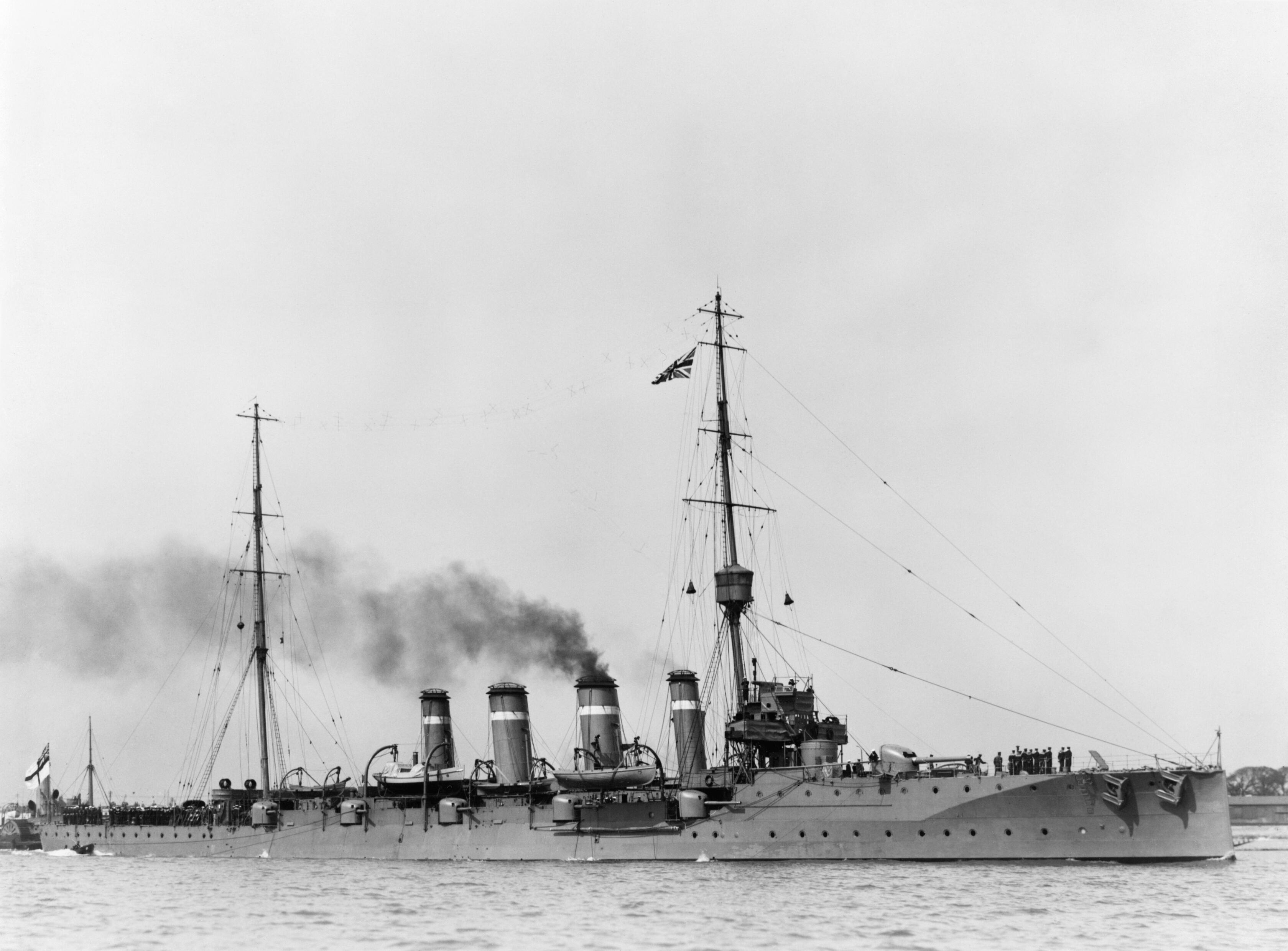 The Royal Navy Before the First World War A starboard broadside view of HMS GLASGOW.